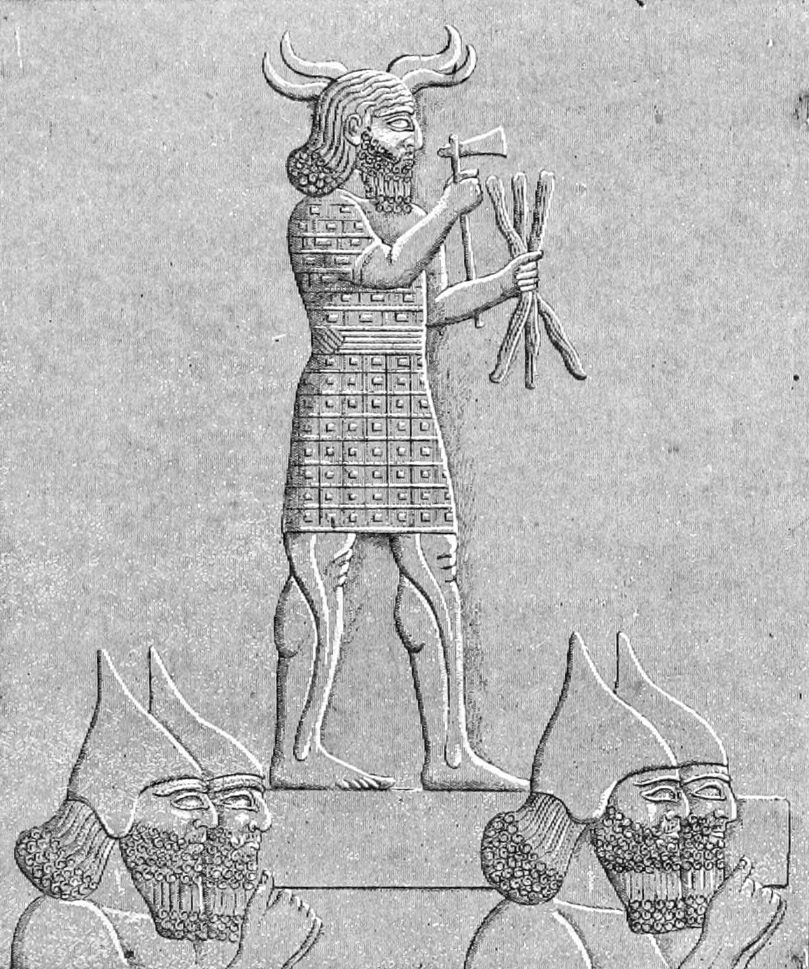 Assyrian soldiers of Ashurbanipal carrying a statue of Adad (also known as Ramman), the god of tempest and thunder.